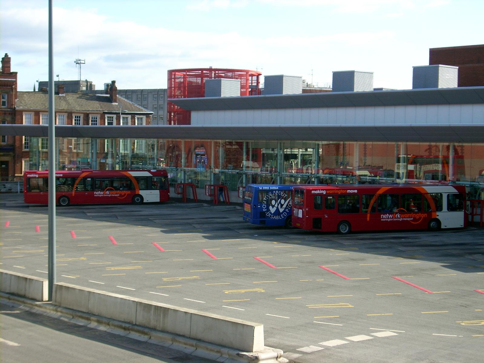 An exterior view of Warrington Bus Interchange. All three buses belong to Warrington Borough Transport. From left to right: a Volvo B7RLE/Wright Eclipse 2, less than six months old at the time; a Dennis Dart SLF/Marshall Capital in special livery for Warrington Disability Awareness Day; a VDL SB120/Wright Merit, the most numerous type in the fleet at the time.